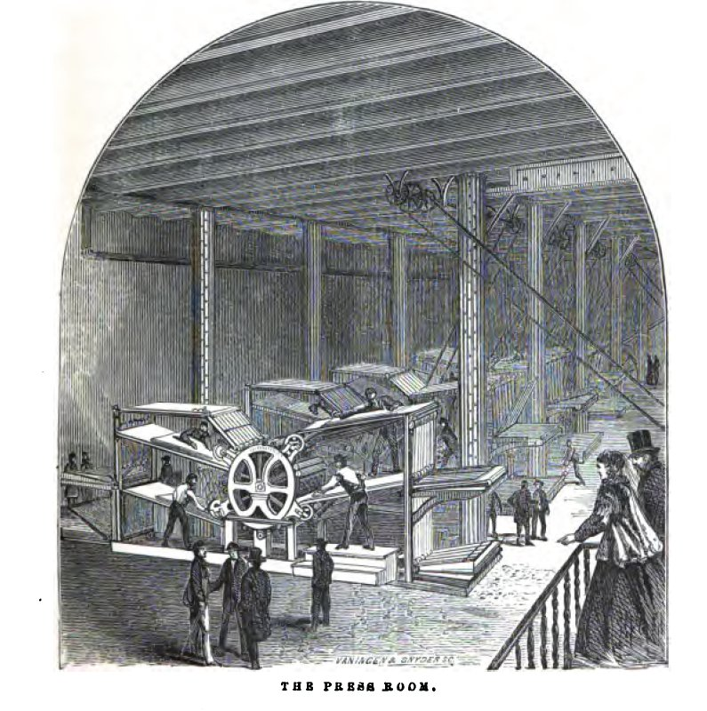 Etching of the press room of the Philadelphia Public Ledger in the then-new Public Ledger Building, 1867